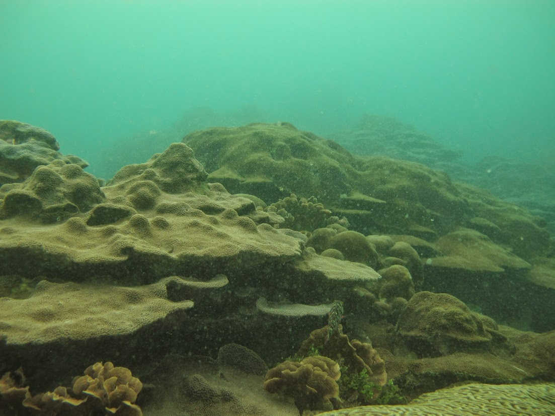 Taken by members of the Monica Medina Lab at Penn State during a field expedition 2014.